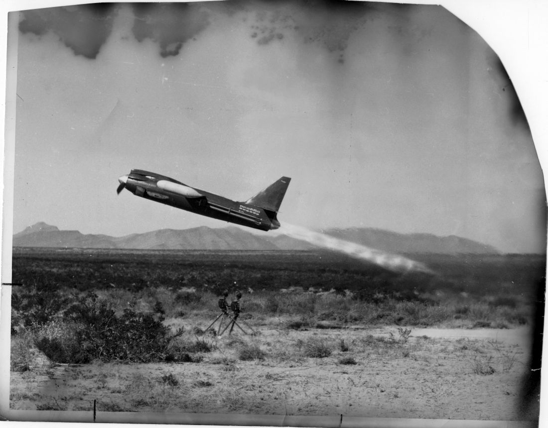 0674-66-17066 Radioplane RP-77 fire damaged print scan